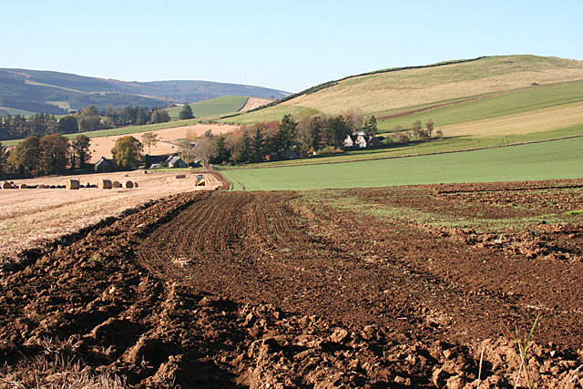 Looking towards New Leslie